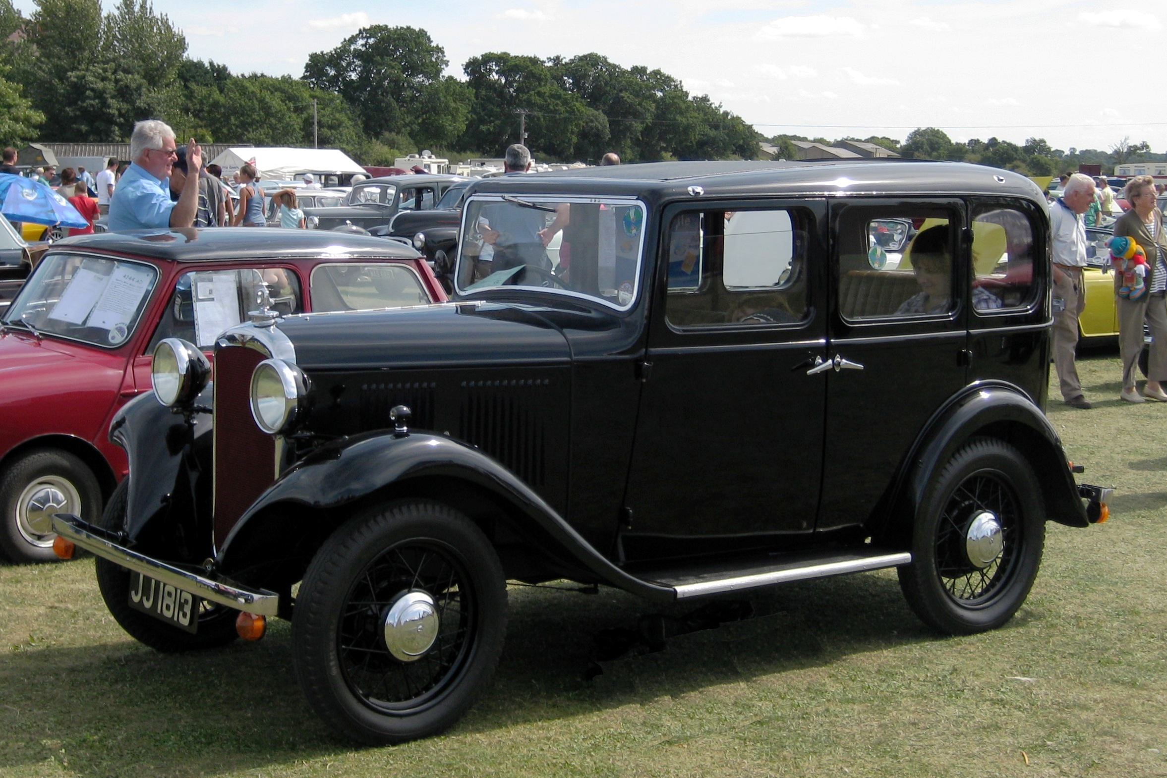 Hillman Minx 1932